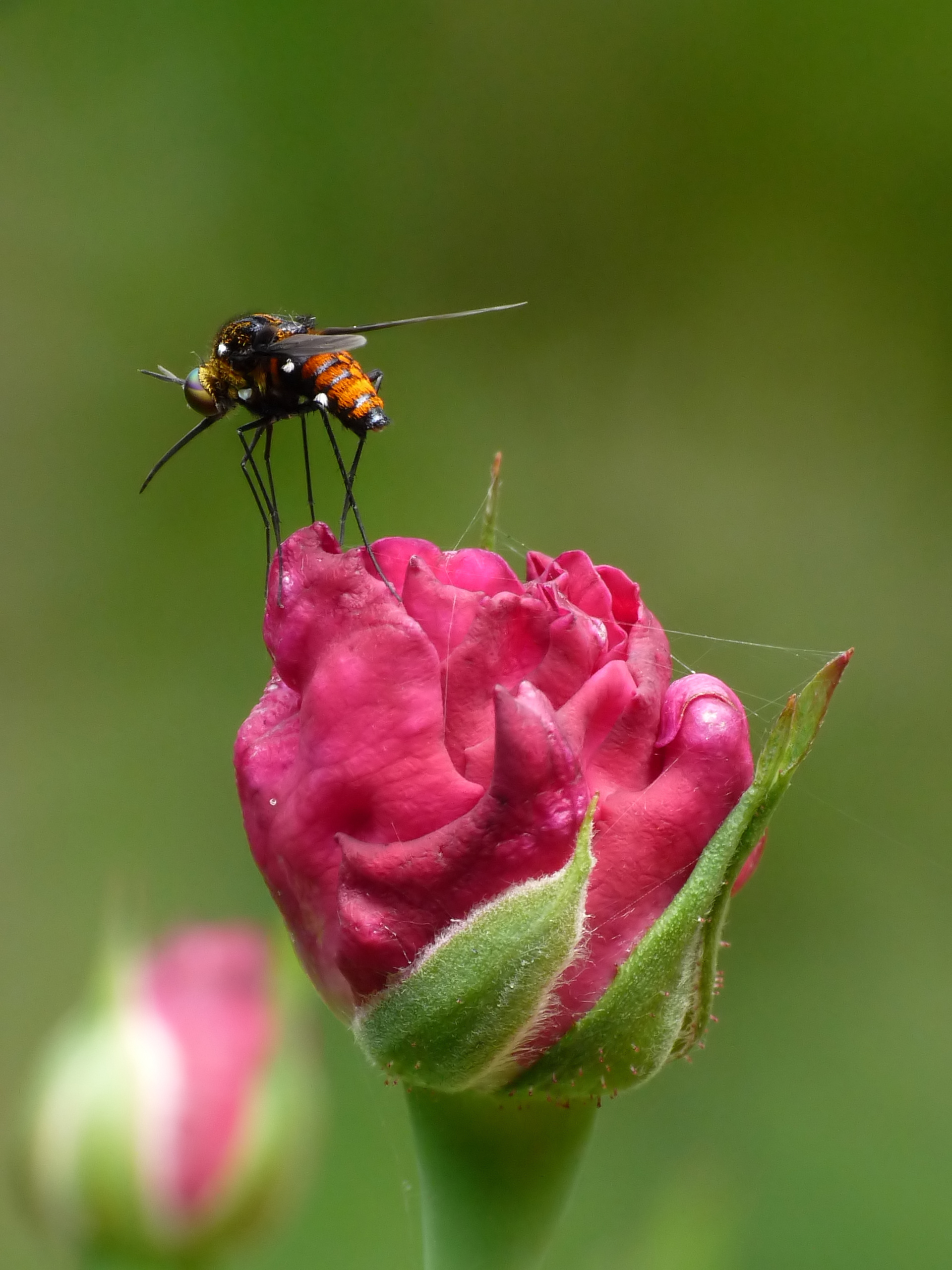 Euchariomyia dives female Taken at Kadavoor, Kerala, India.